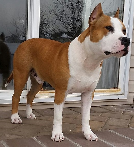 Amstaff cropped ears at 9 months old